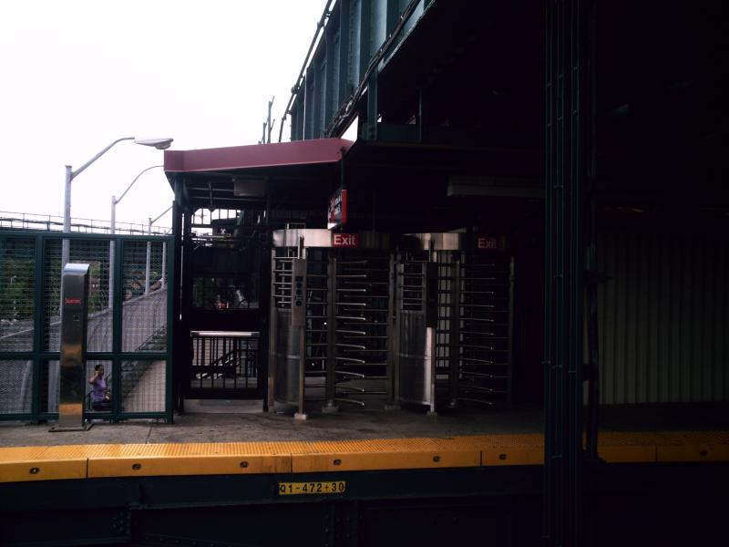 High Entry-Exit turnstile on the southbound platform of Livonia Avenue. This turnstile allows passengers on that side to enter/exit the station without having to go through the mezzanine and main entrance. Behind it is a pedestrian bridge that allows access to Junius Street